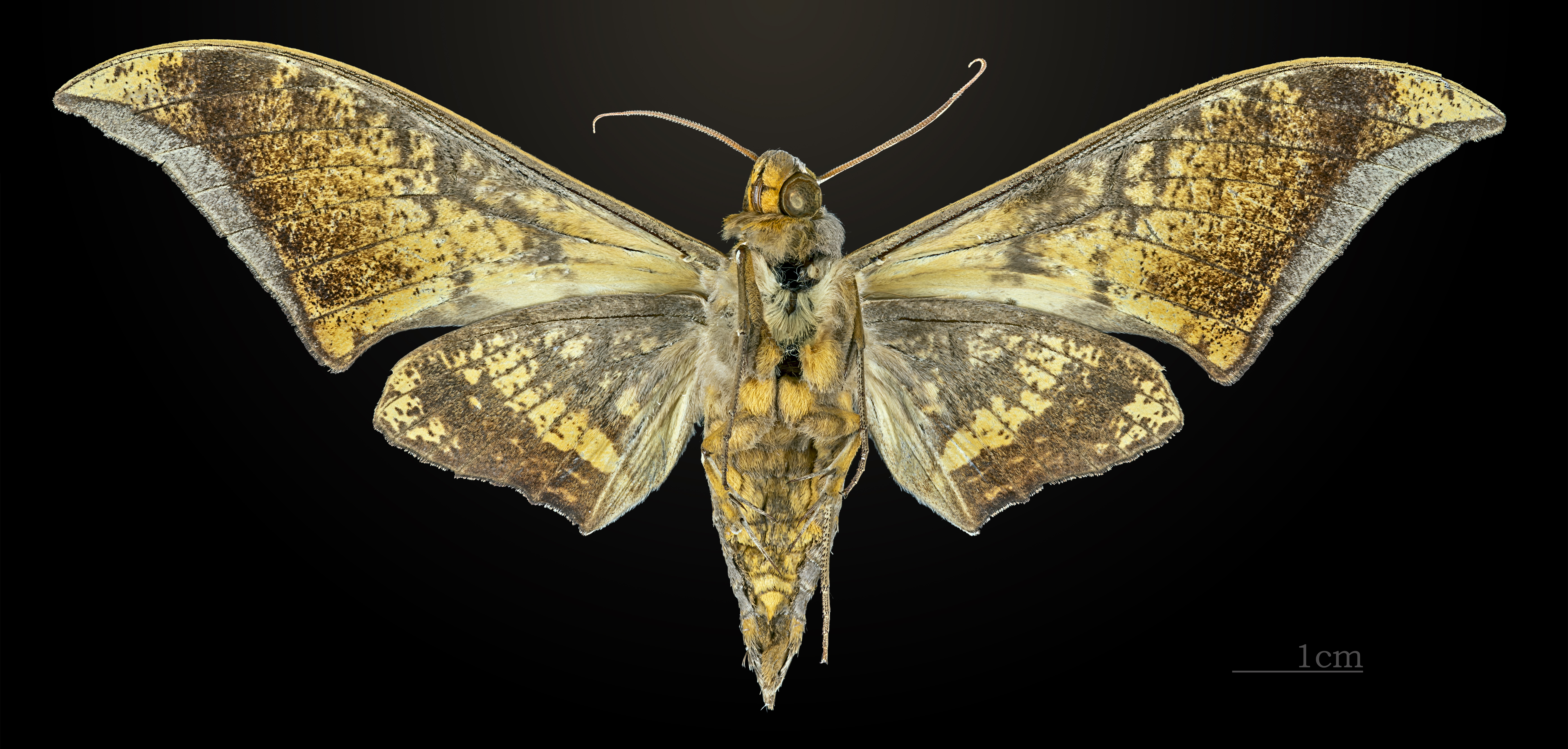 Ambulyx jordani - △ Ventral side Collection of the Mathematician Laurent Schwartz